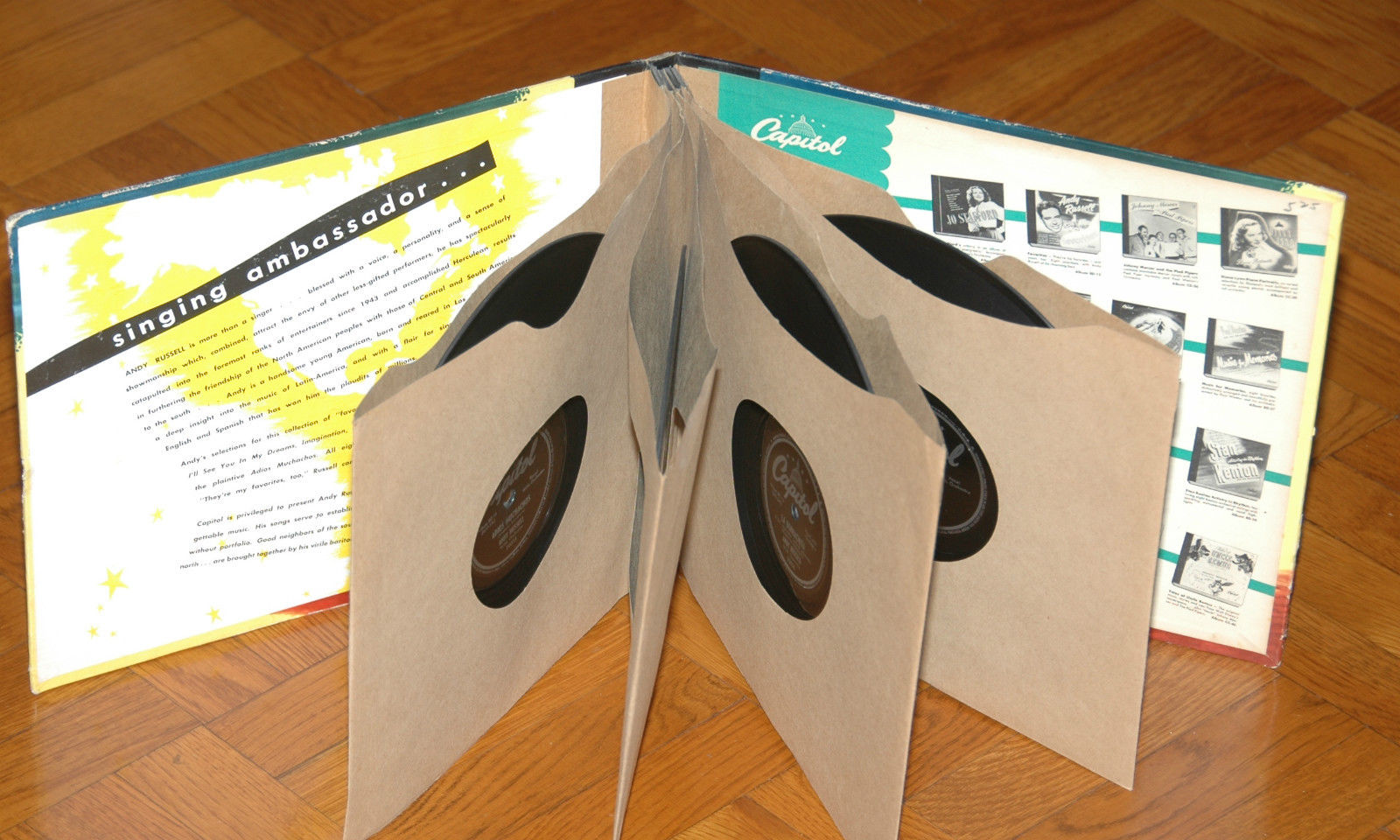 Andy Russell LP Favoritos by Capitol Records, 1943